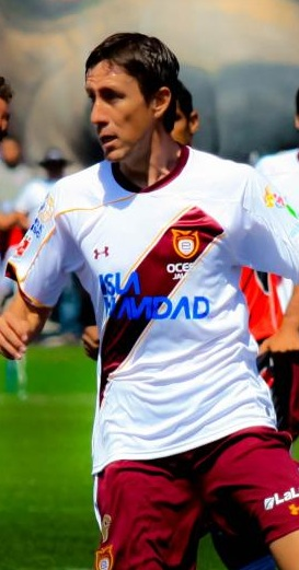 Mexican player Rafael Medina